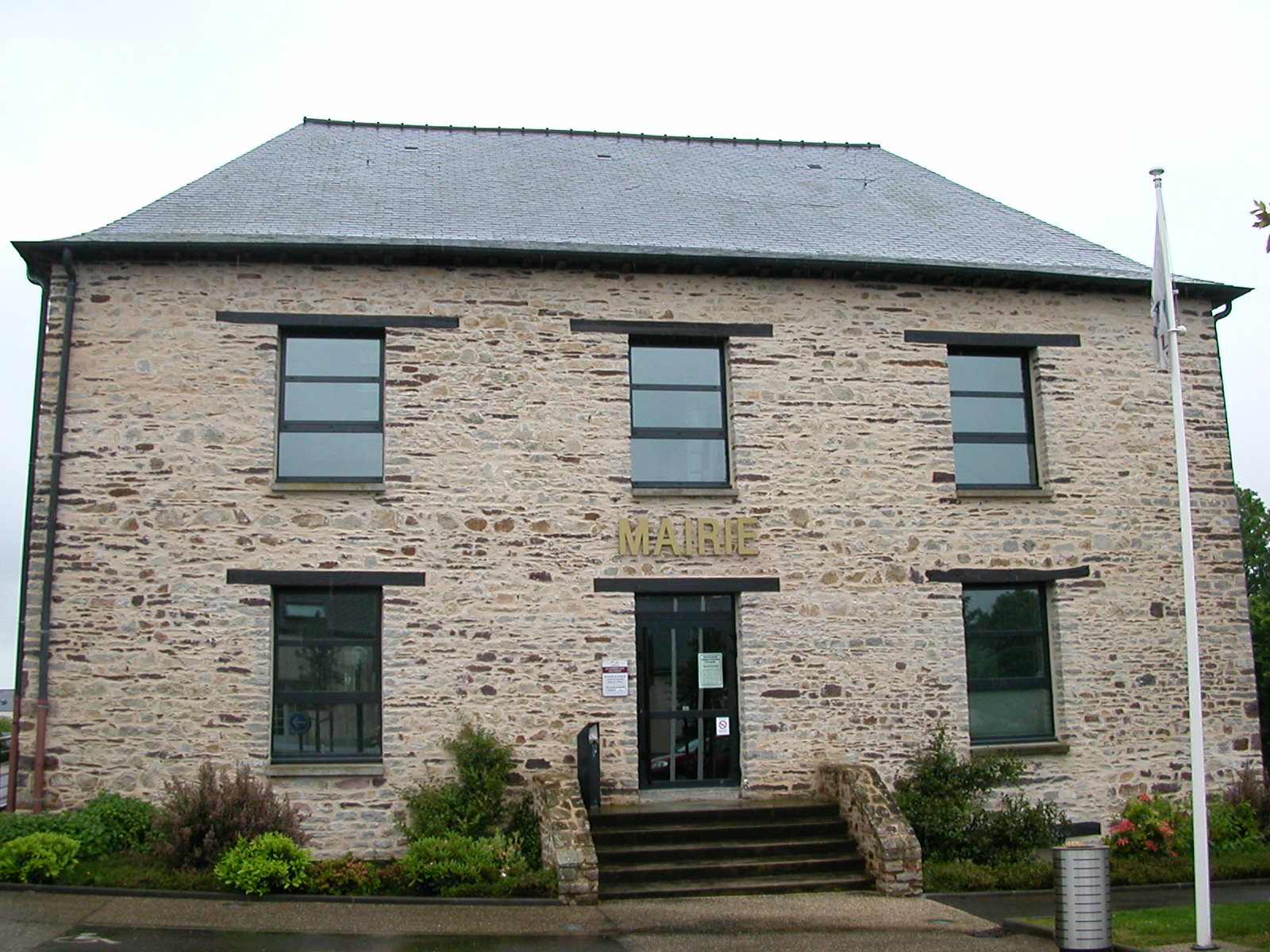 Town hall of Crevin